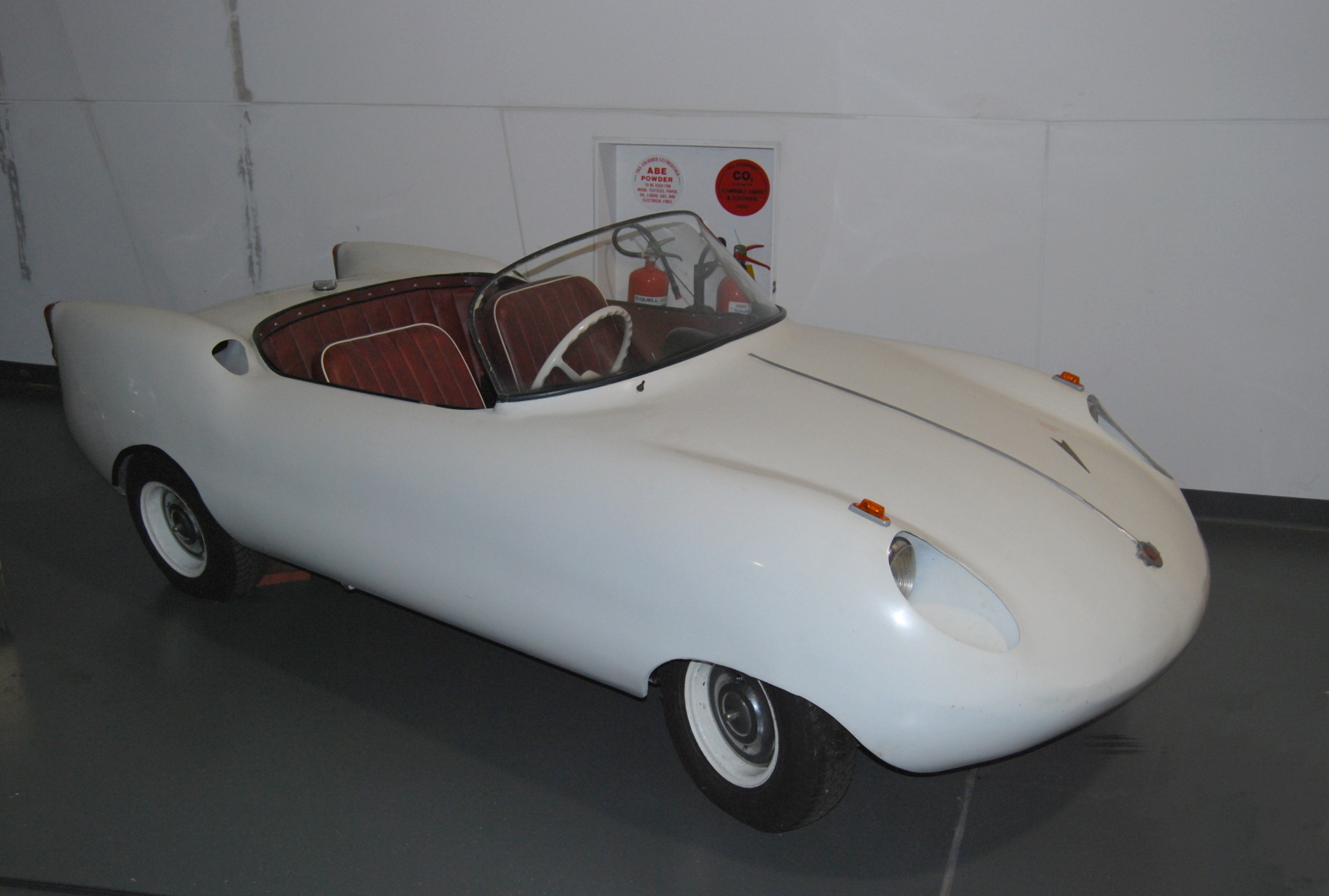 An Australian built Goggomobile Dart on display at the National Motor Museum, Birdwood, South Australia